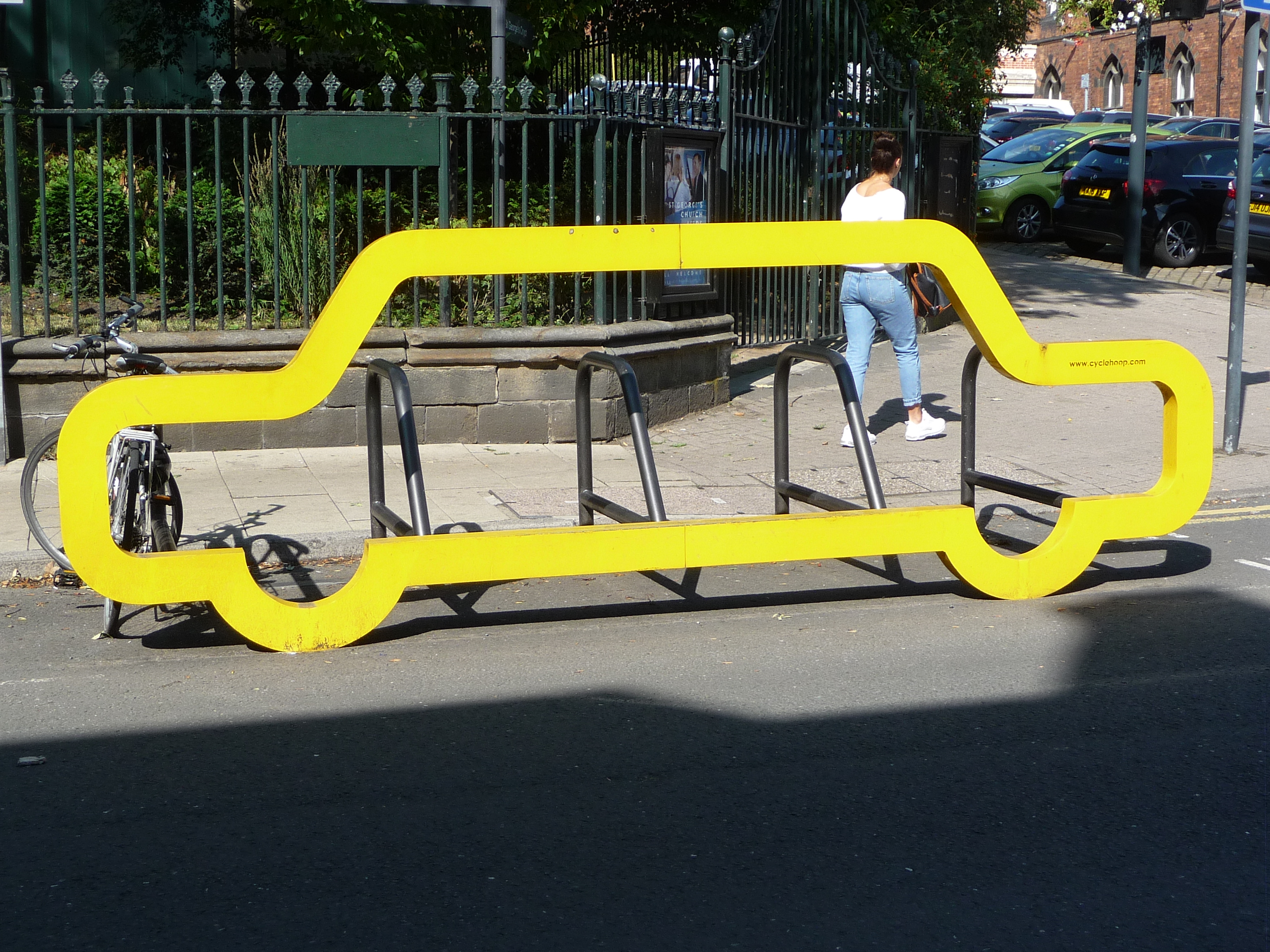 Bicycle parking in Leeds, England